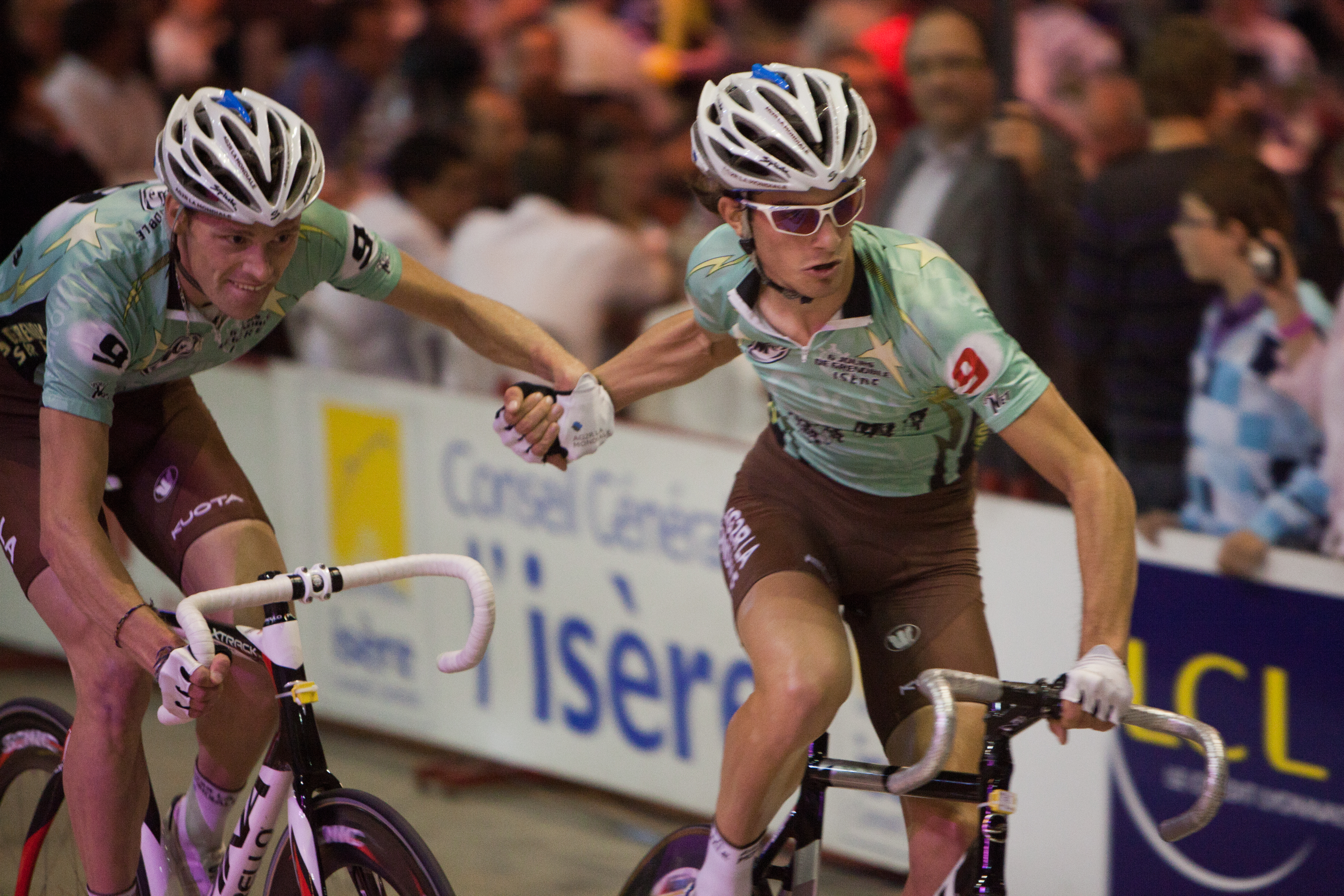 The making of this document was supported by Wikimedia CH. (Submit your project!) For all the files concerned, please see the category Supported by Wikimedia CH. Relais à l'américaine aux Six jours de Grenoble 2011